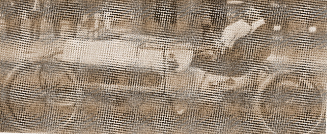 1915 Asheville Light Car